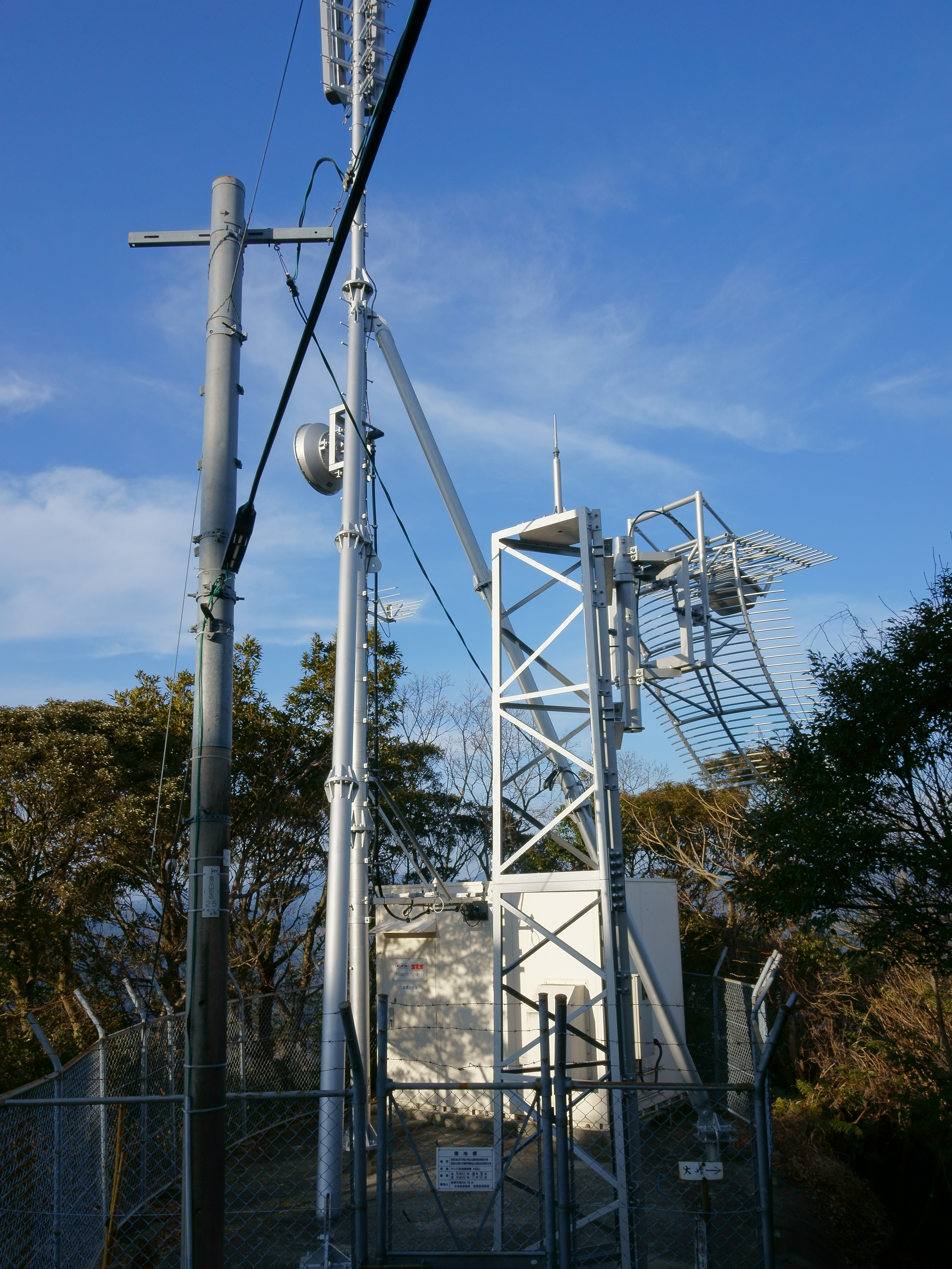 A television relay station on the peak of Mount Kinryu, Saga city.